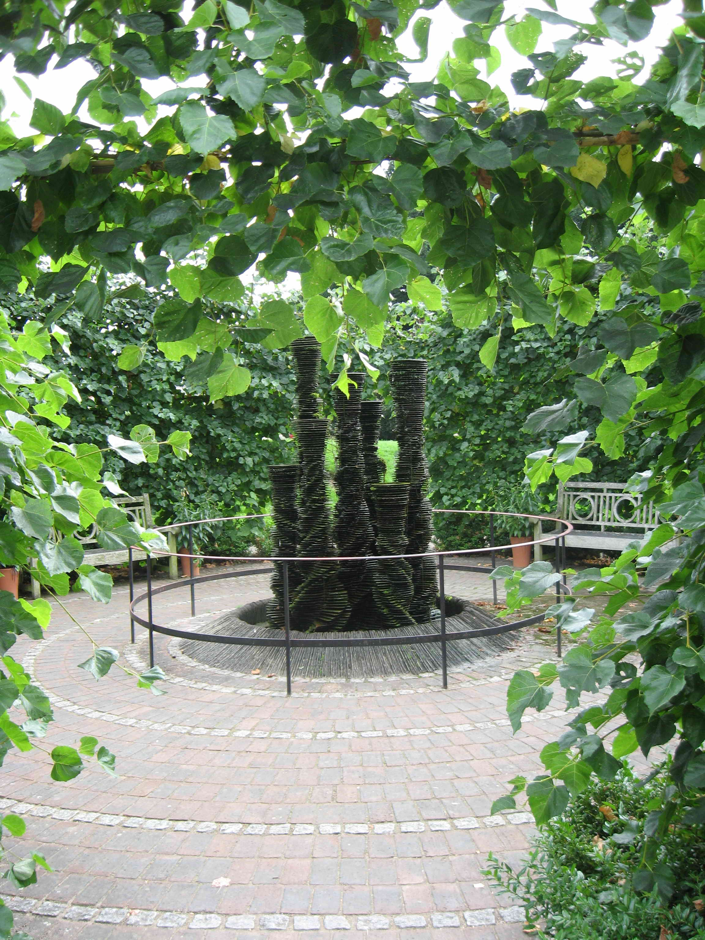 Kew Secret garden